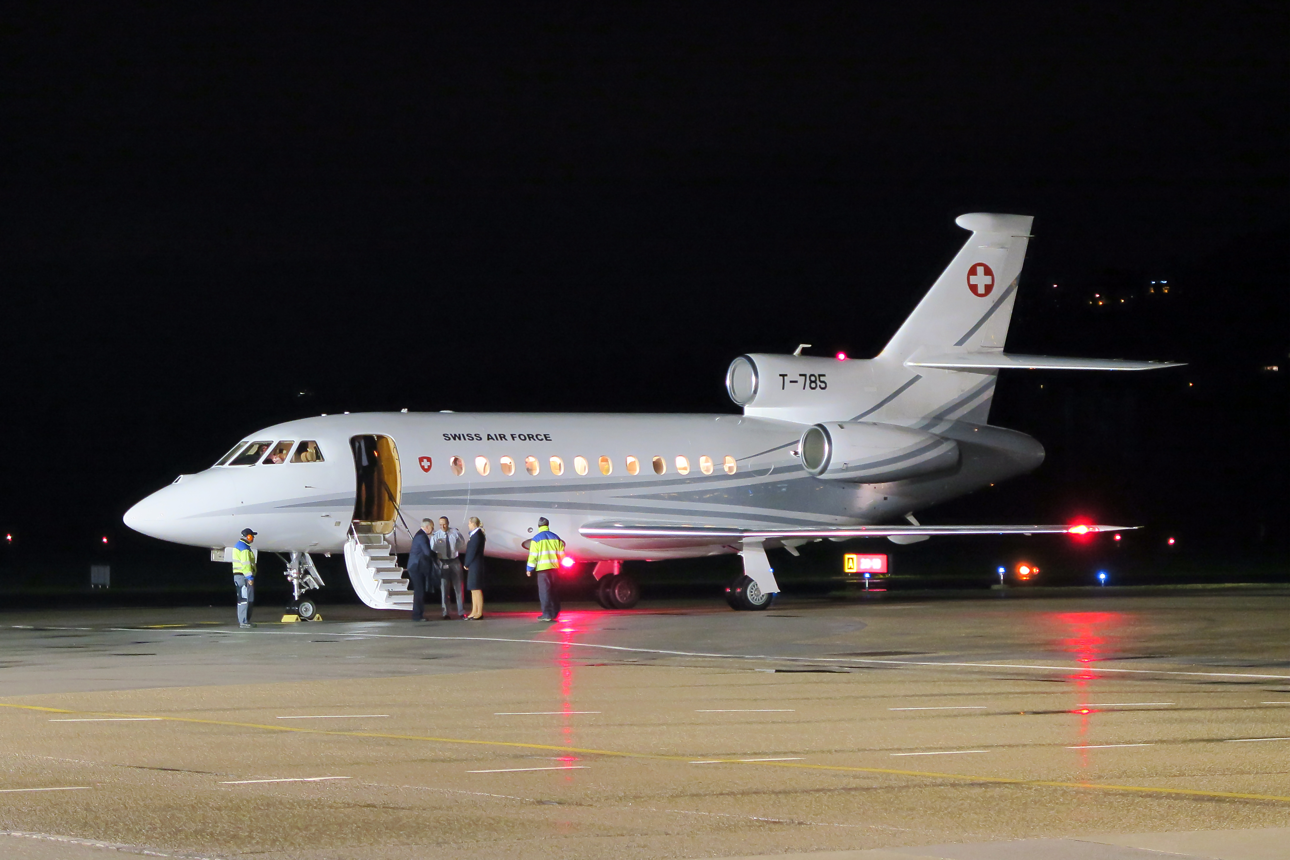 Nocturnal landing of the Swiss government aircraft Dassault Falcon 900EX in St. Gallen-Altenrhein. Federal Councillor Johann Schneider-Ammann came back from Velizy Villacoublay (France). He had a meeting in Paris with French Economy Minister Emmanuel Macron. The Federal Council was picked up at the airport by a chauffeur, discreet without police and without bodyguard. Also the press was not present. So unobtrusive, the Swiss government travels. The aircraft flew subsequently to Bern-Belp, where it is stationed. Altenrhein, Switzerland, April 2, 2015.